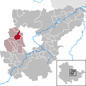 Hopfgarten in Thuringia - District Weimarer Land